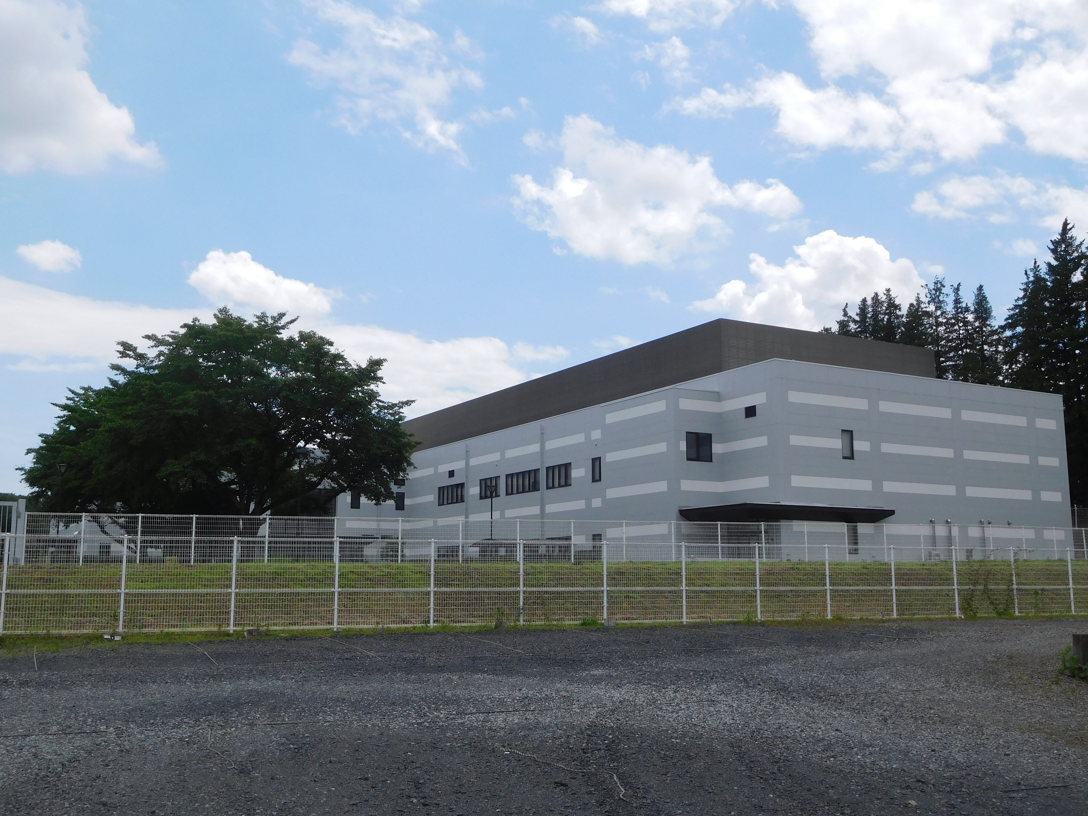 This is the Laboratory of Racing Chemistry in Utsunomiya, Tochigi, Japan.